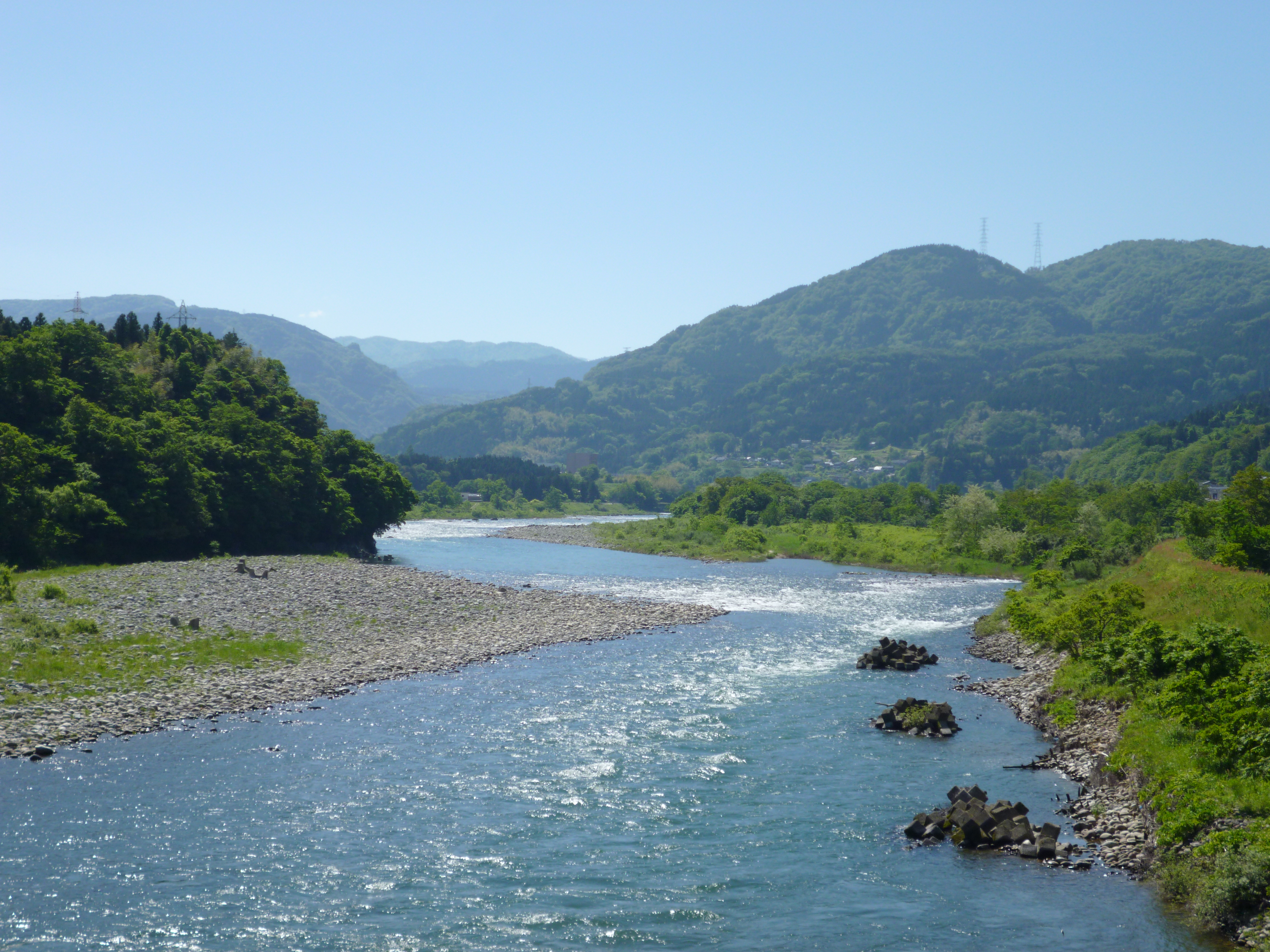 Jinzū River in Toyama, Toyama, Japan. A view from Ōsawano Bridge.